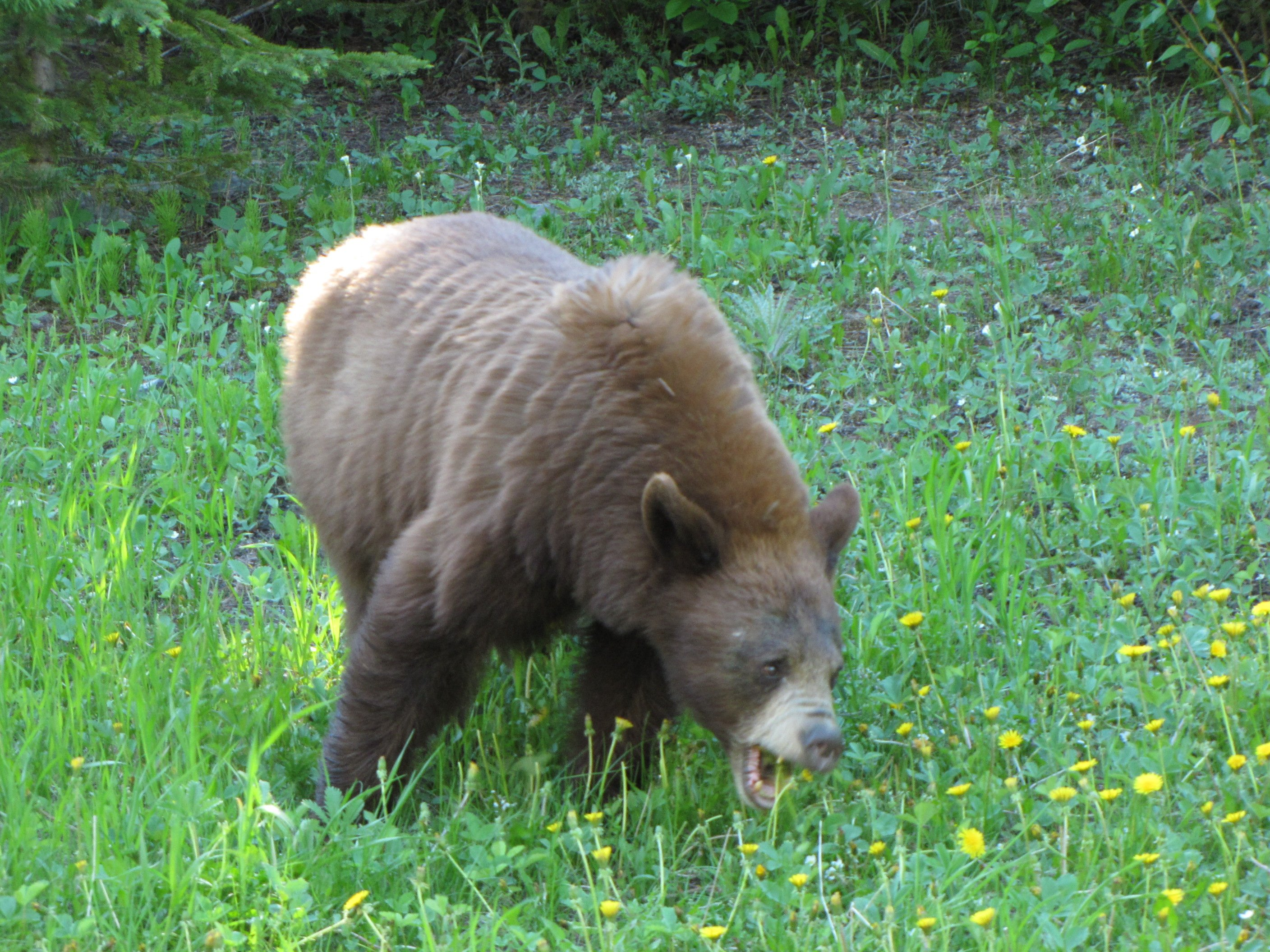 Cinnamon-coloured Black Bear in Waterton Lakes National Park. Luckily more interested in eating dandelions than me.